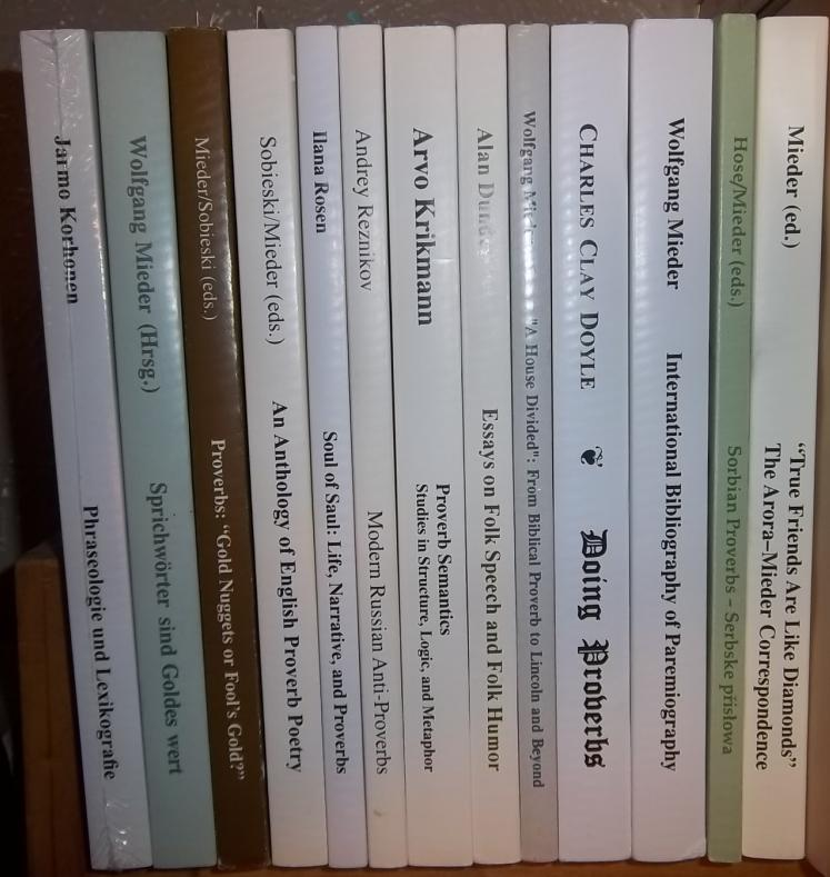 A selection of books on proverb studies from the Proverbium Supplement Series Proverbium (journal)